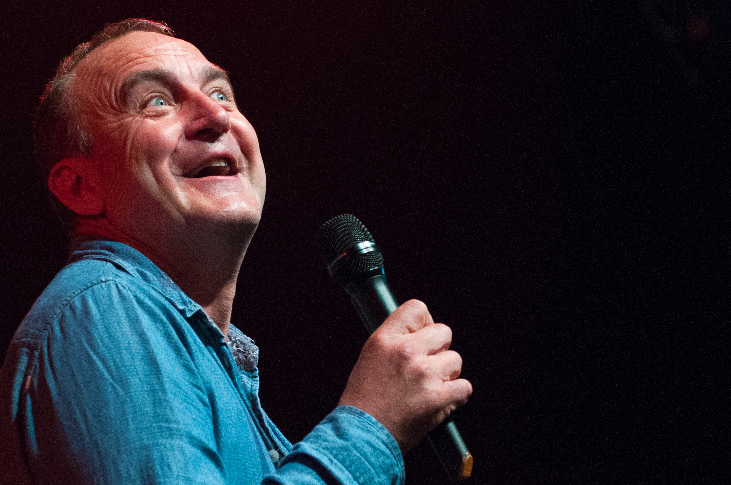 Jimeoin performing at the Glastonbury Cabaret 2015